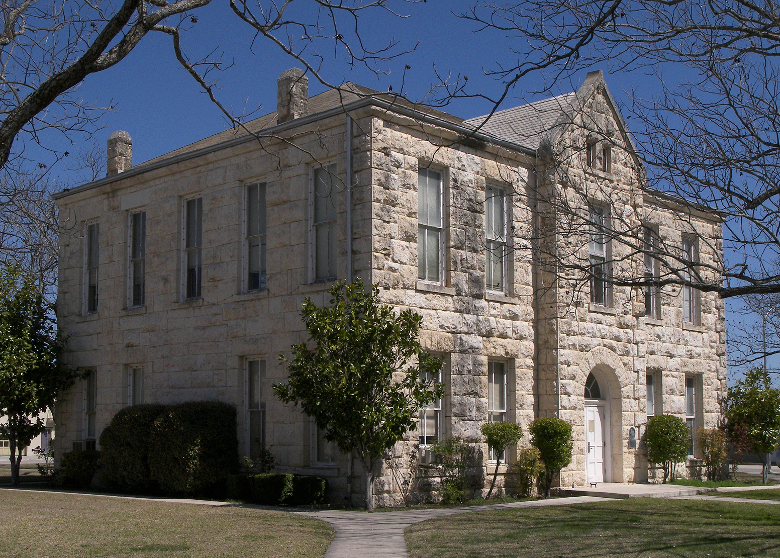 The Edwards County, Texas courthouse located at 100 W. Main St, Rocksprings, Texas, United States. It was designated a Recorded Texas Historic Landmark in 1973 and listed on the National Register of Historic Places on November 7, 1979.